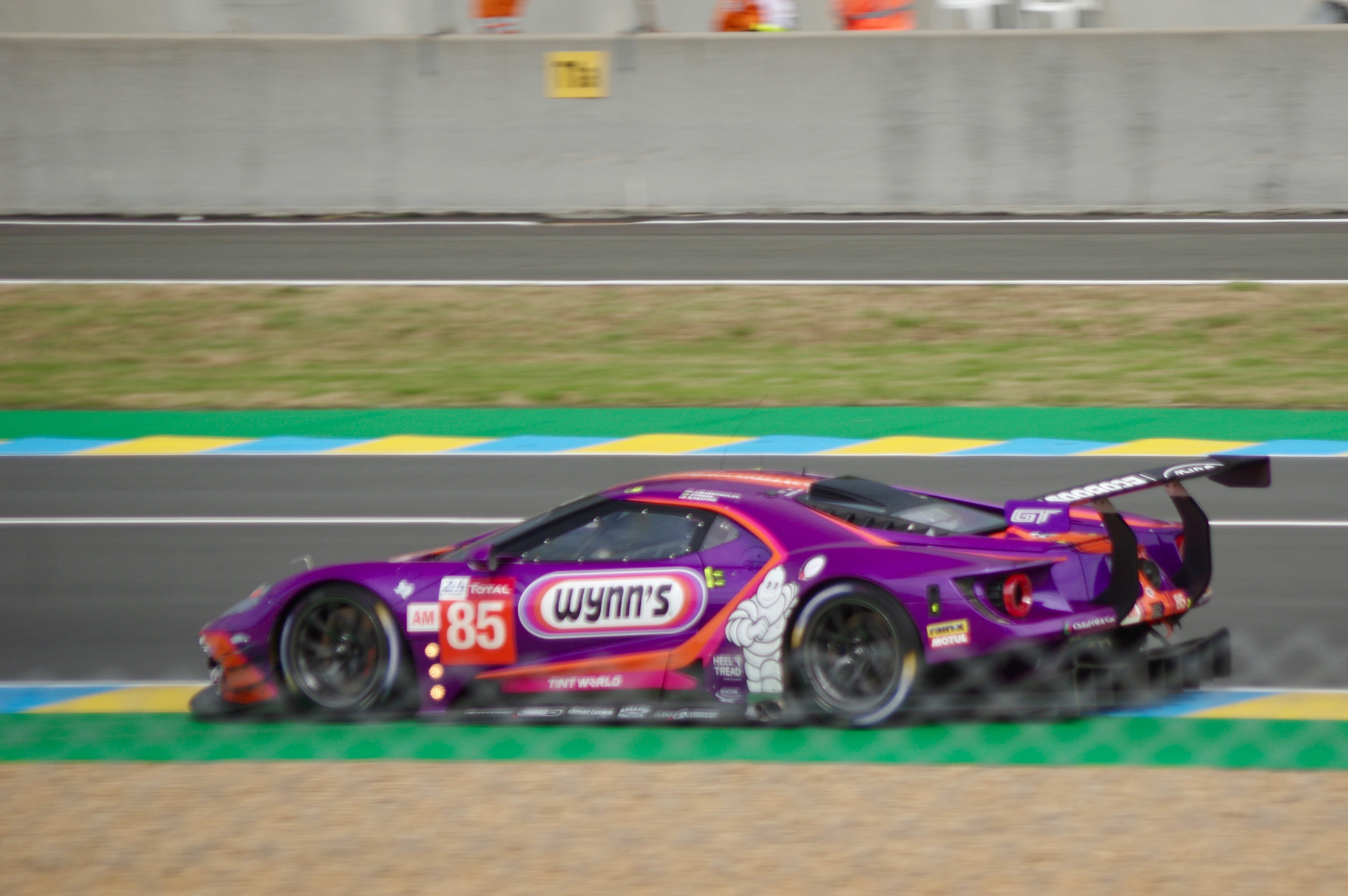 The No. 85 Keating Motorsport Ford GT driven by Jeroen Bleekemolen, Felipe Fraga and Ben Keating in the LMGTE Am category at the 2019 24 Hours of Le Mans